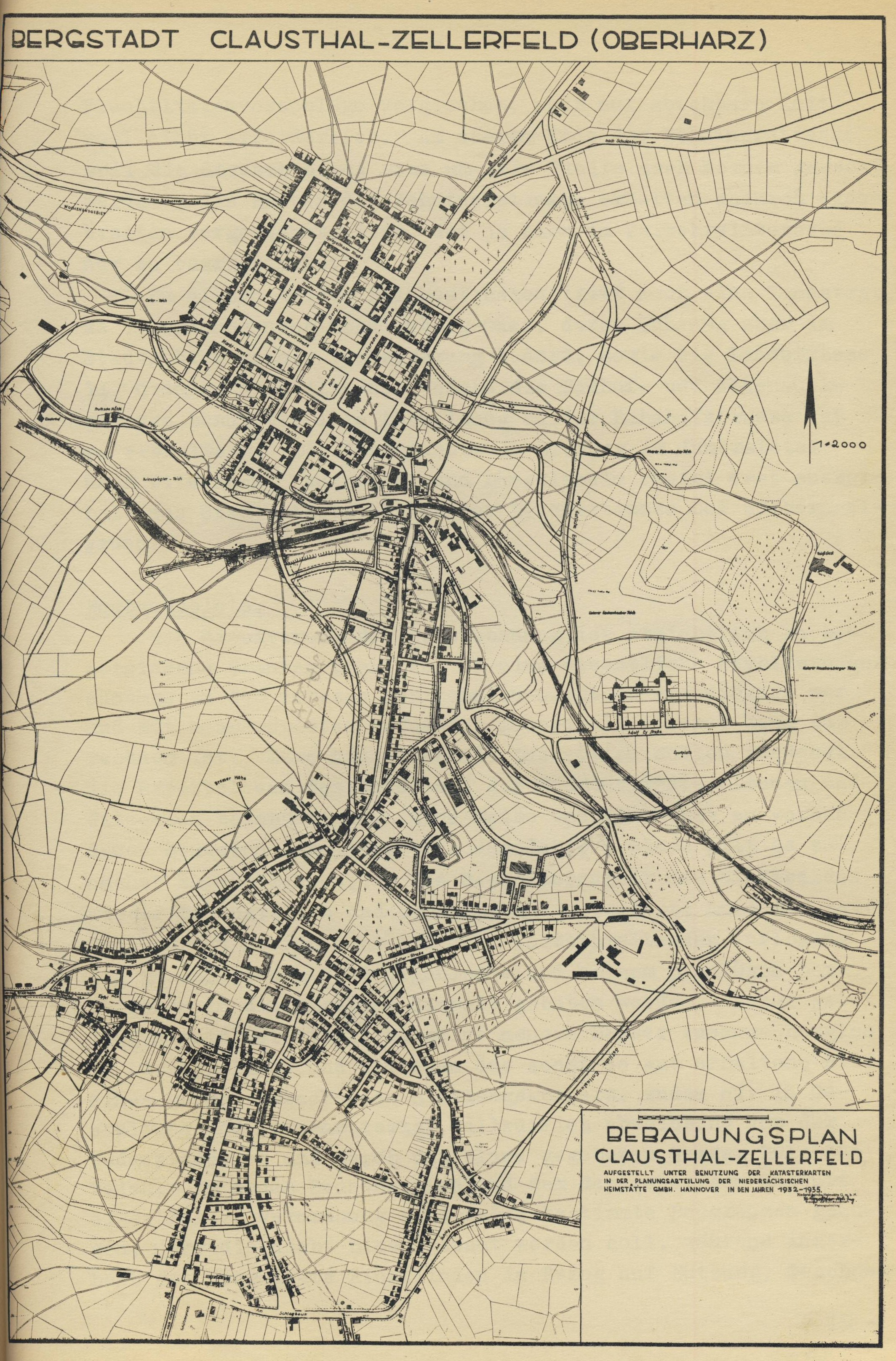 Map of Clausthal-Zellerfeld, 1935